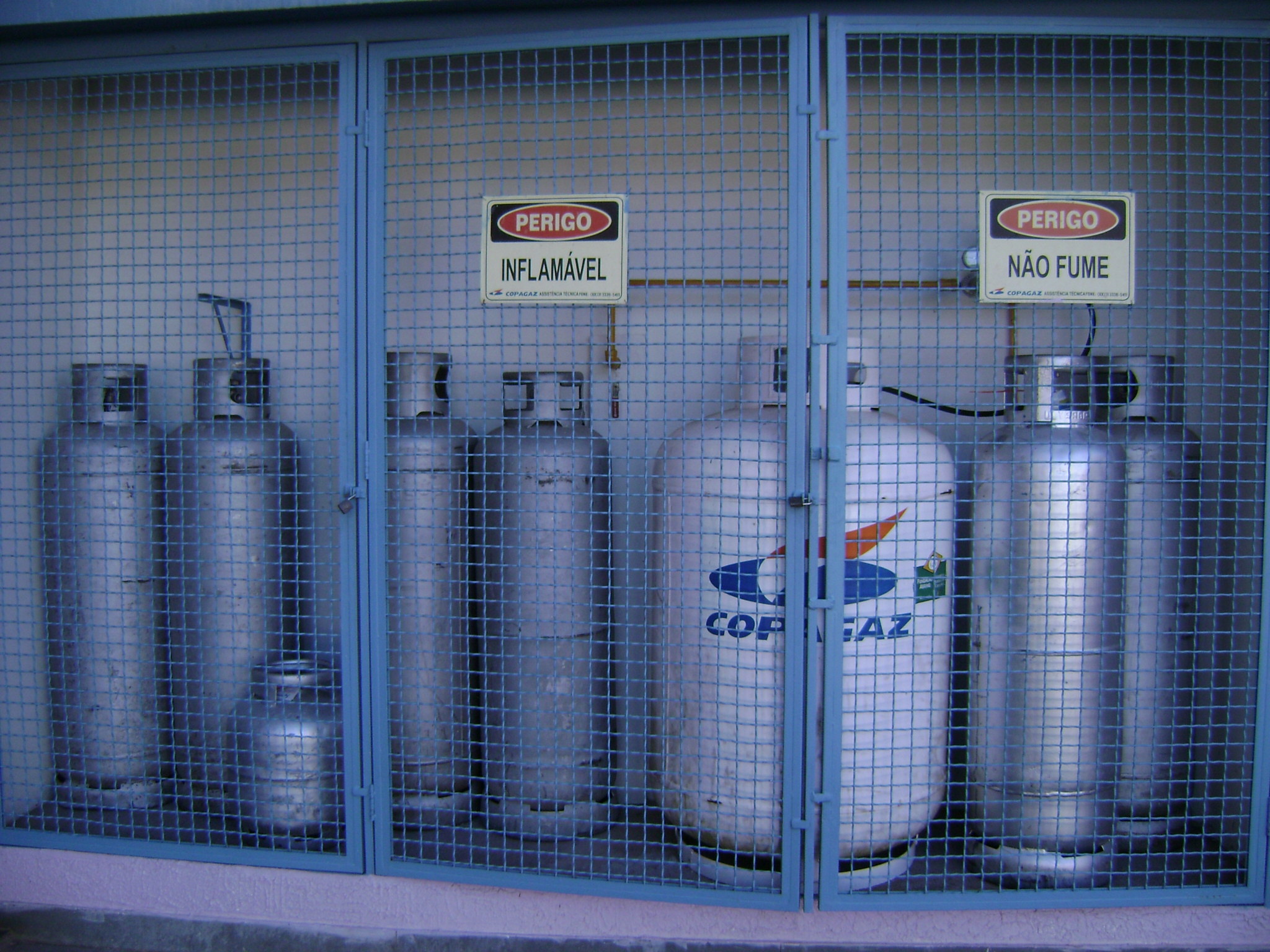 Butijões de gás.